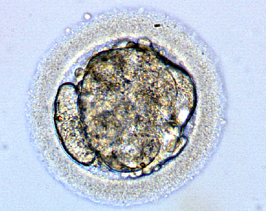 human embryo-morula